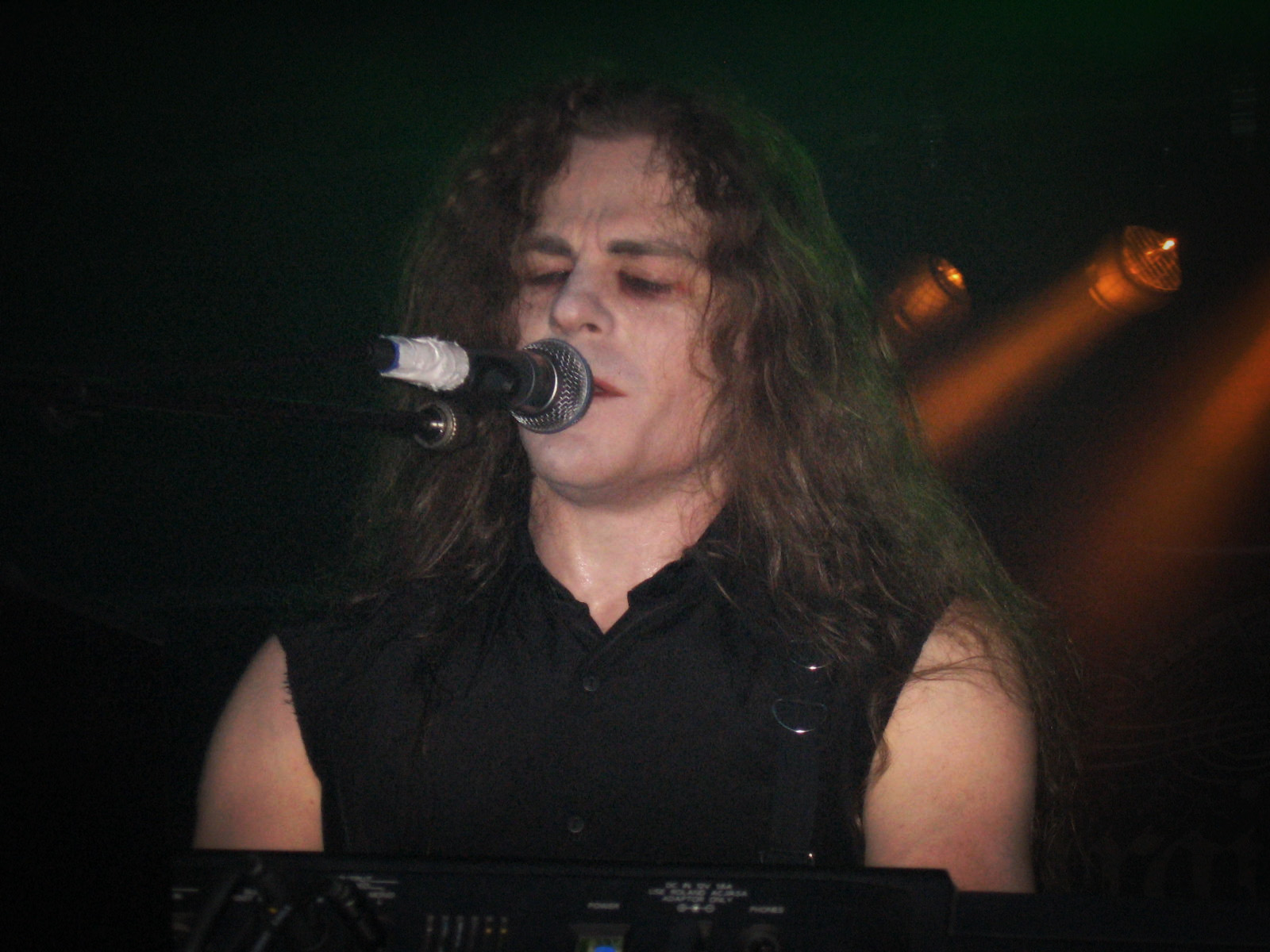 Rowan London of the Australian gothic-doom metal musical group Virgin Black. Taken at Elements of Rock festival 2007, Stadshofsaal, Uster, Switzerland. Originally uploaded at Italian Wikipedia by Senpai who says in the description that he was authorized by the webmaster of whitemetal.it site, Valerio Mei (author of the photo), to upload the photo. Licended under Italian Creative Commons attribute (CC-BY-SA-2.5-it). The image had a tag saying that the image is suitable for Wikimedia Commons.